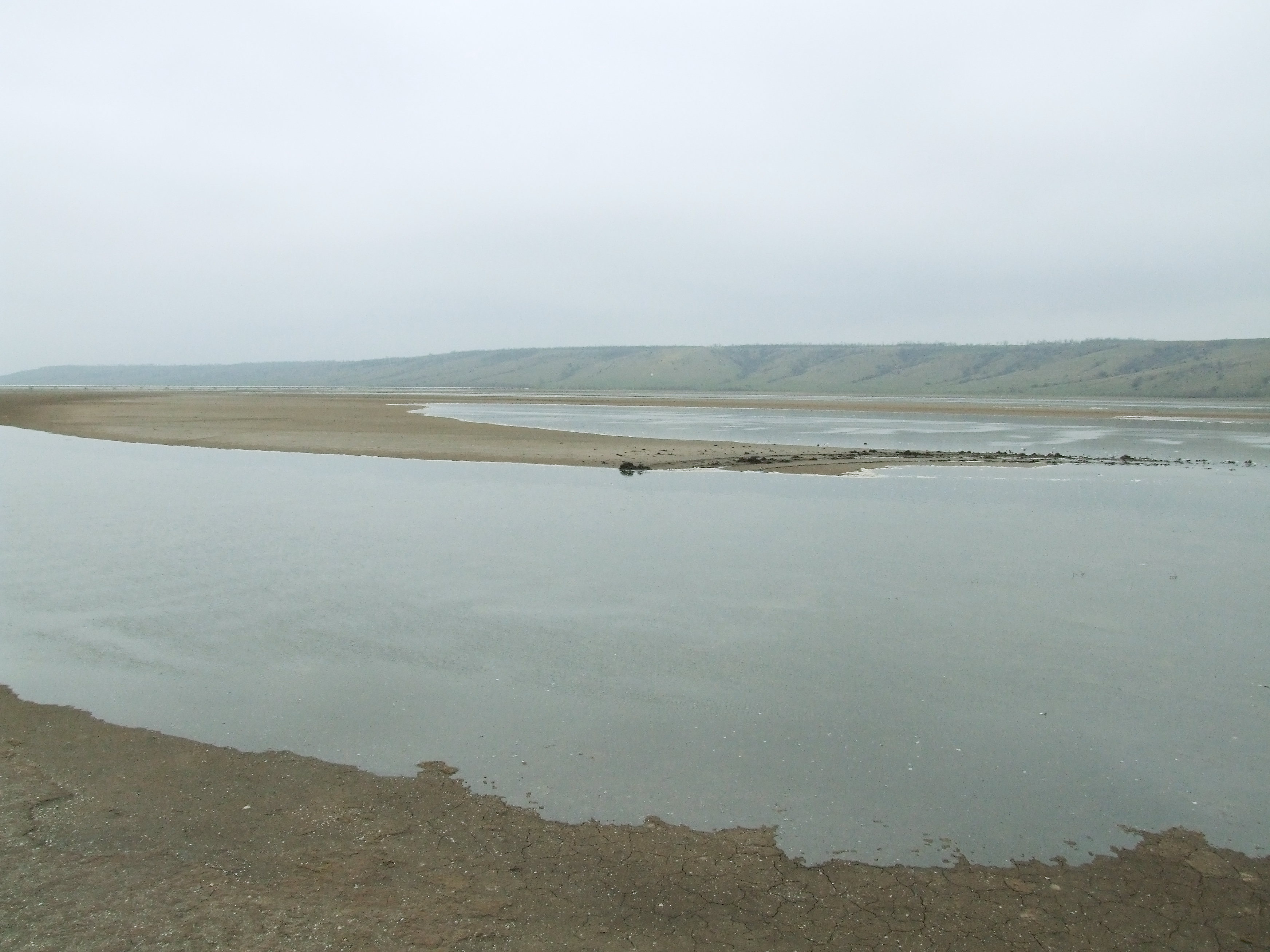 The Upper Kuyalnyckyi liman, Odessa Oblast, Ukraine